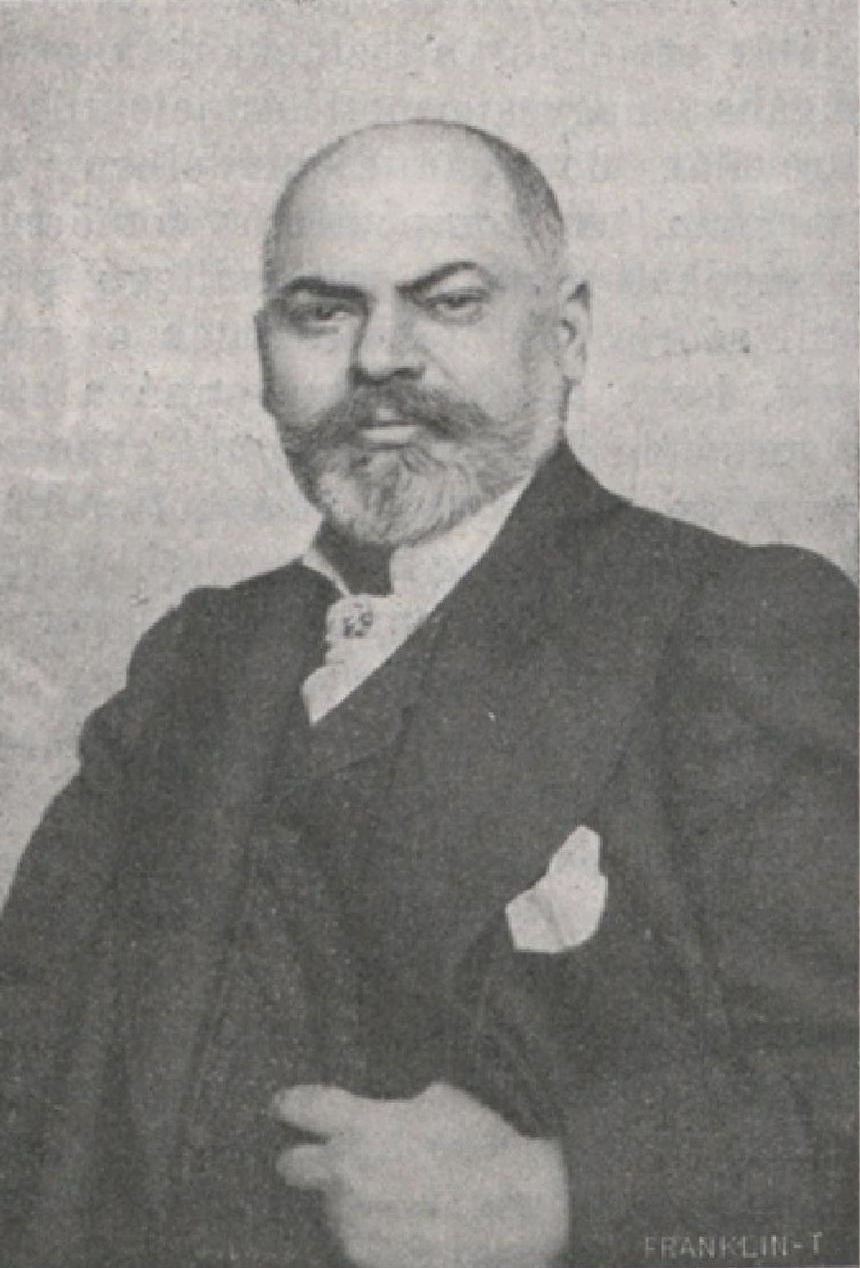 Ignác Roskovics, Jun.